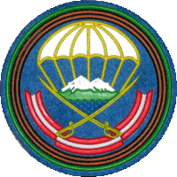 Patch of the 108th Guards Air Assault Regiment